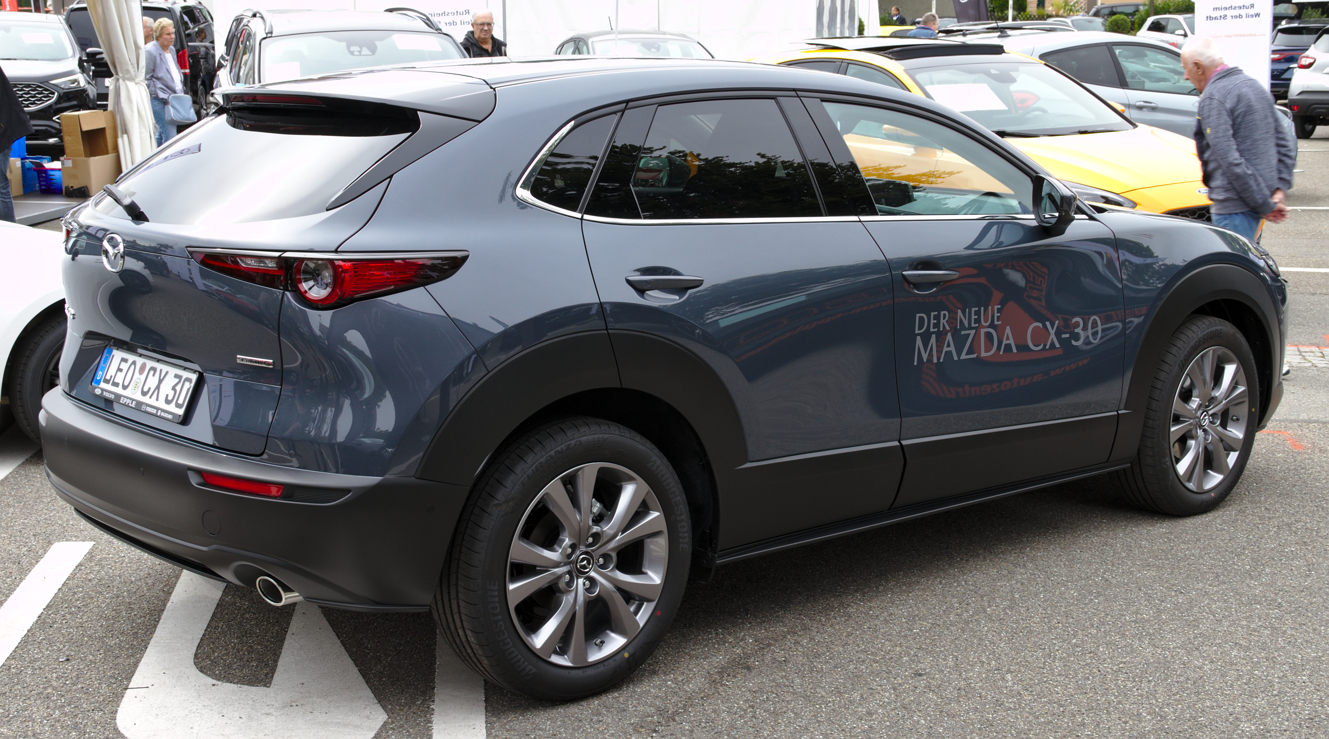 Mazda_CX-30 at Leonberger Autoschau 2019